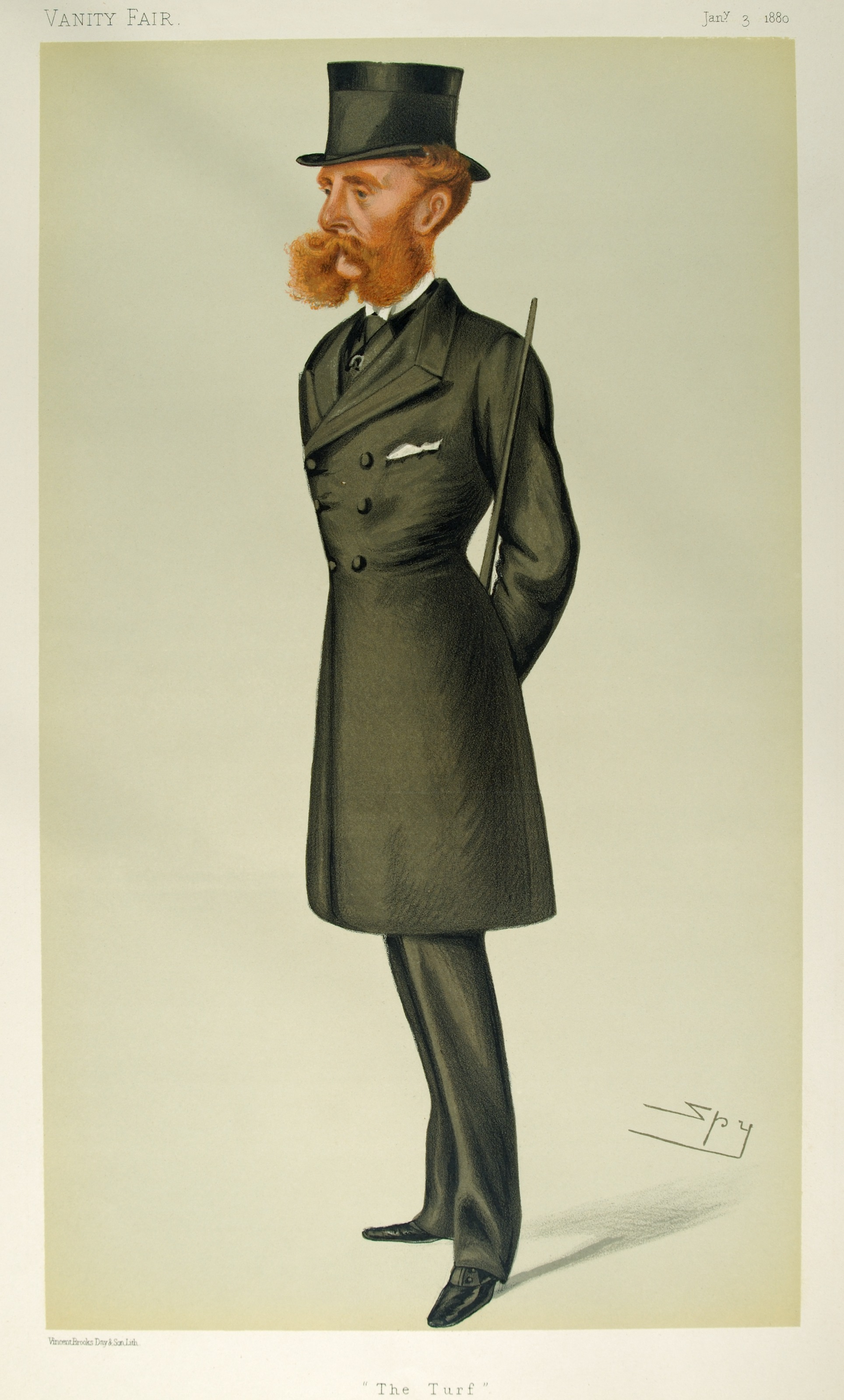 Men of the Day No.213: Caricature of Mr Henry Savile. Caption reads: "The Turf"